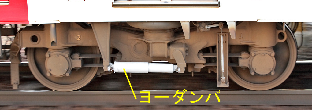 Yaw damper of Meitetsu 2200 series (Sumitomo Metal Industries type SS-164C bogie truck)